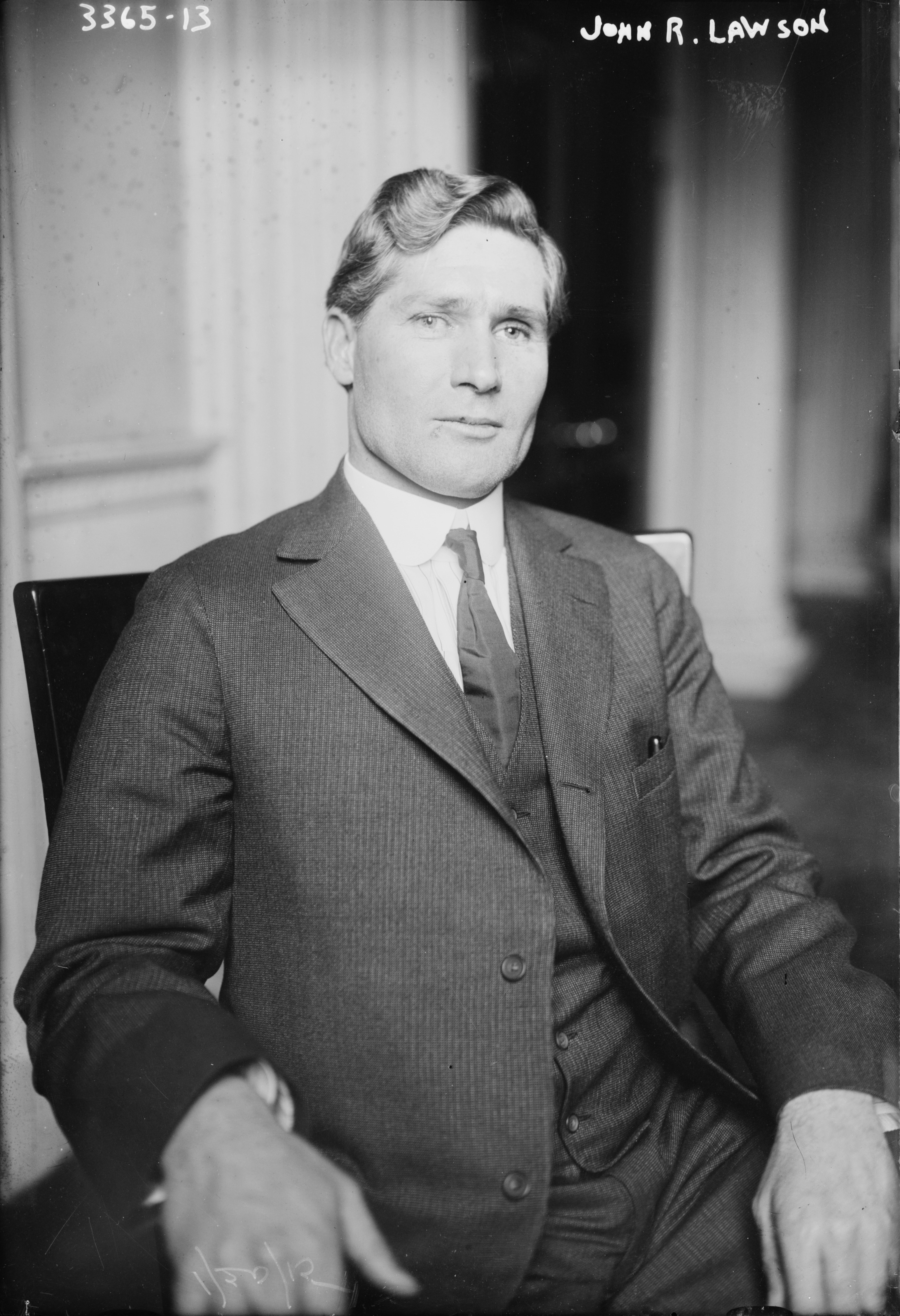 John R. Lawson, miner and labor leader